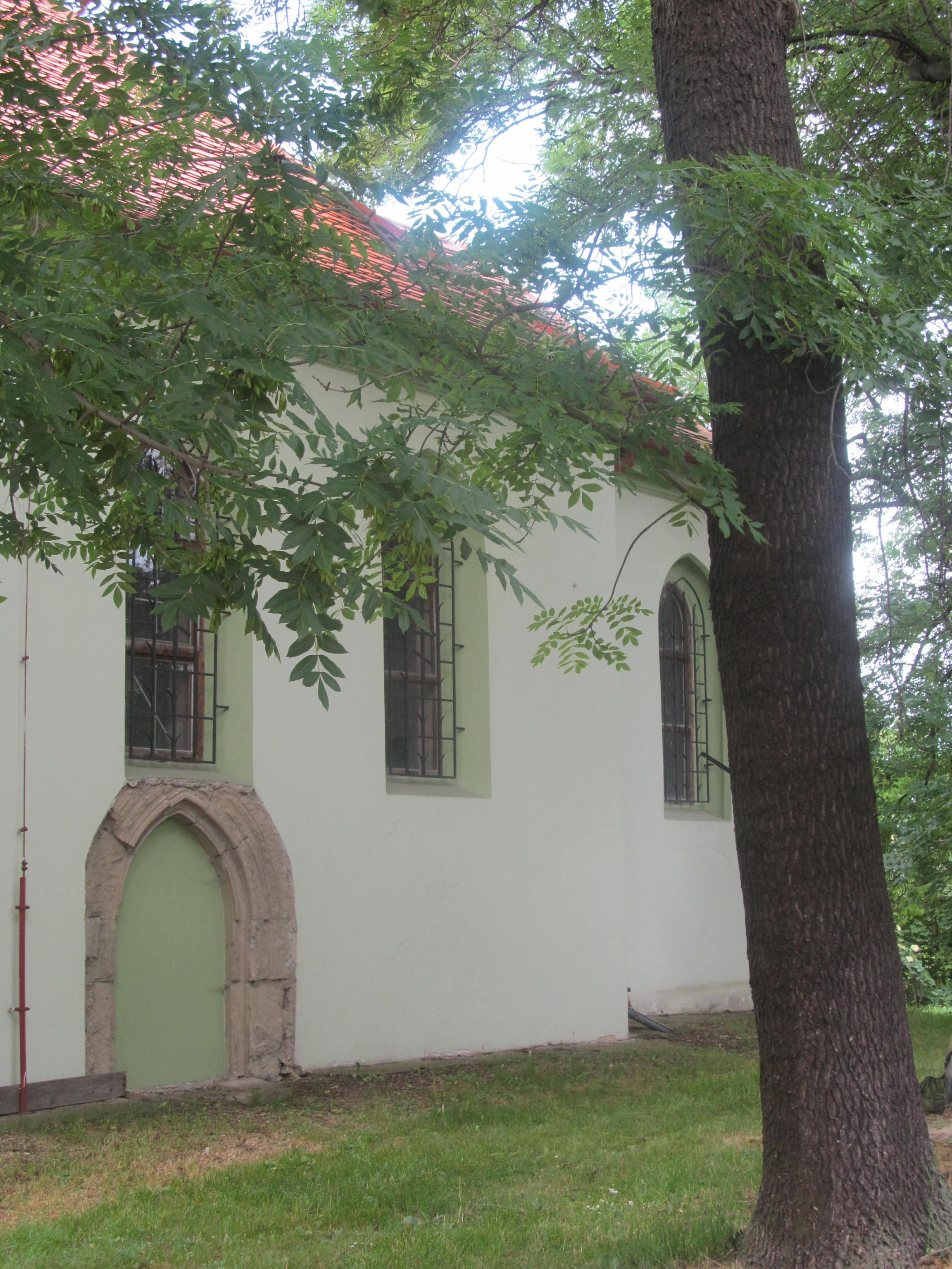 Portal in the south wall of the church of Saint Jacob in Žatec